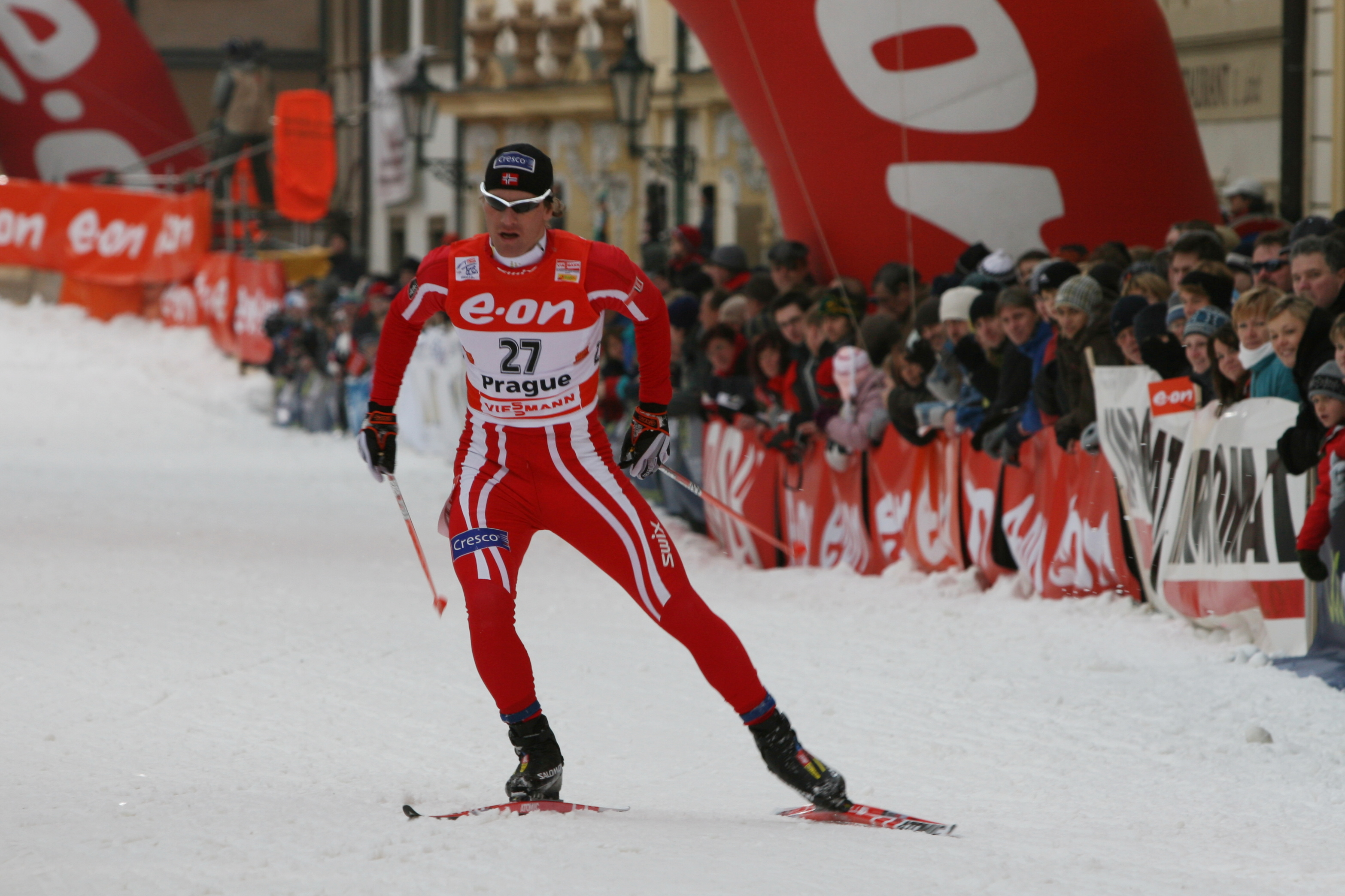 Jens Arne Svartedal in the qualification of Tour de Ski in Prague